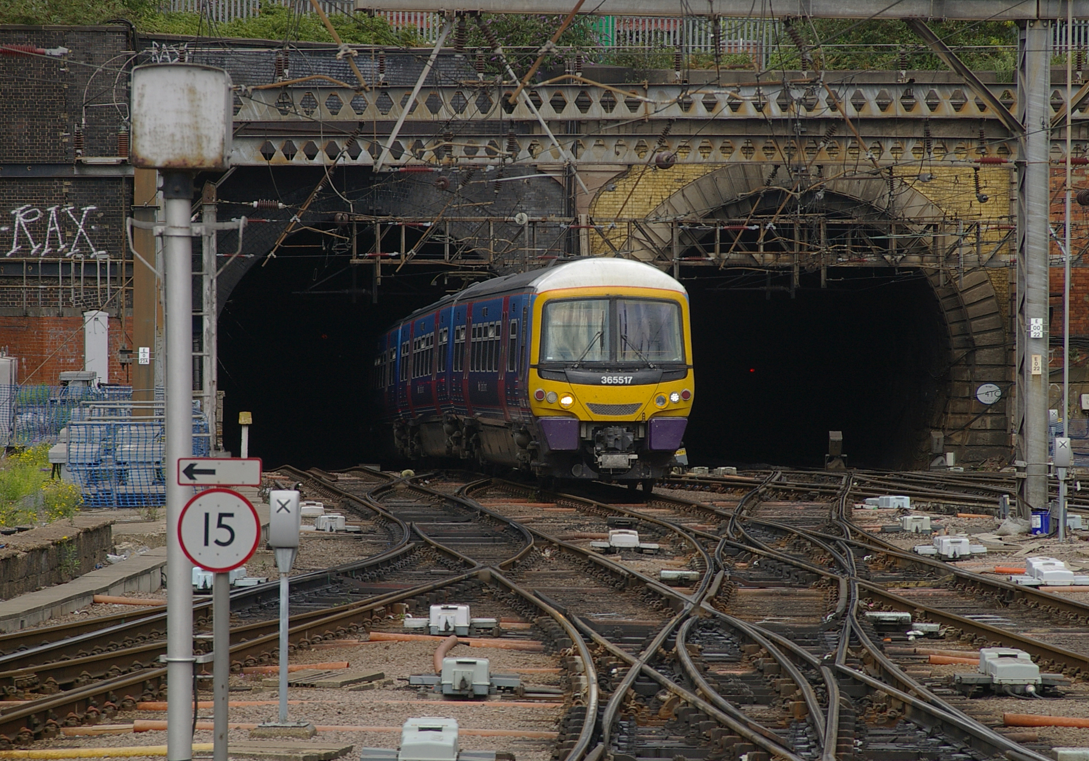 First Capital Connect unit 365517 arrives at London Kings Cross railway station, coming out of the tunnel.